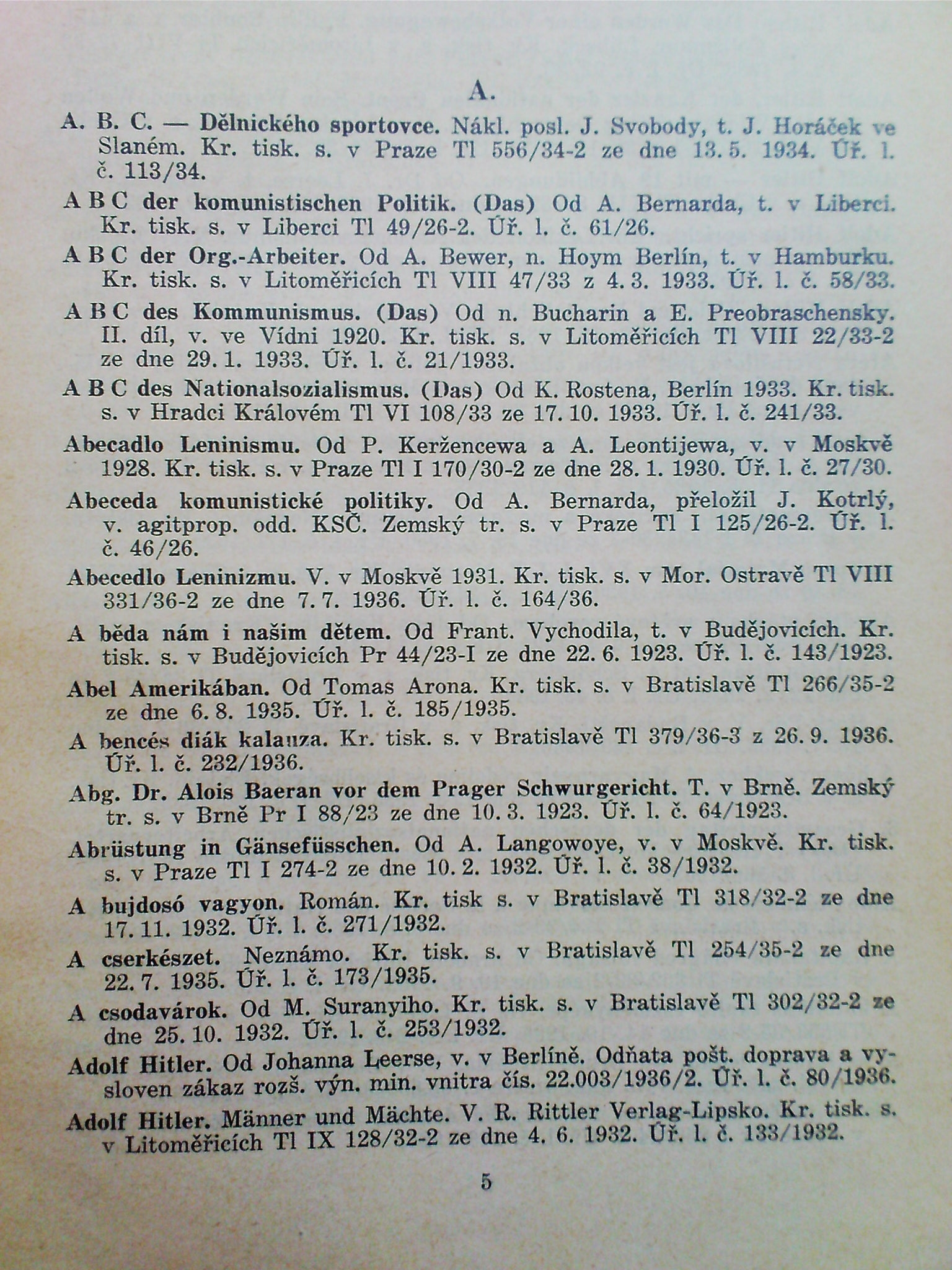 List of in Czechoslovakia forbidden books and songs (1937)